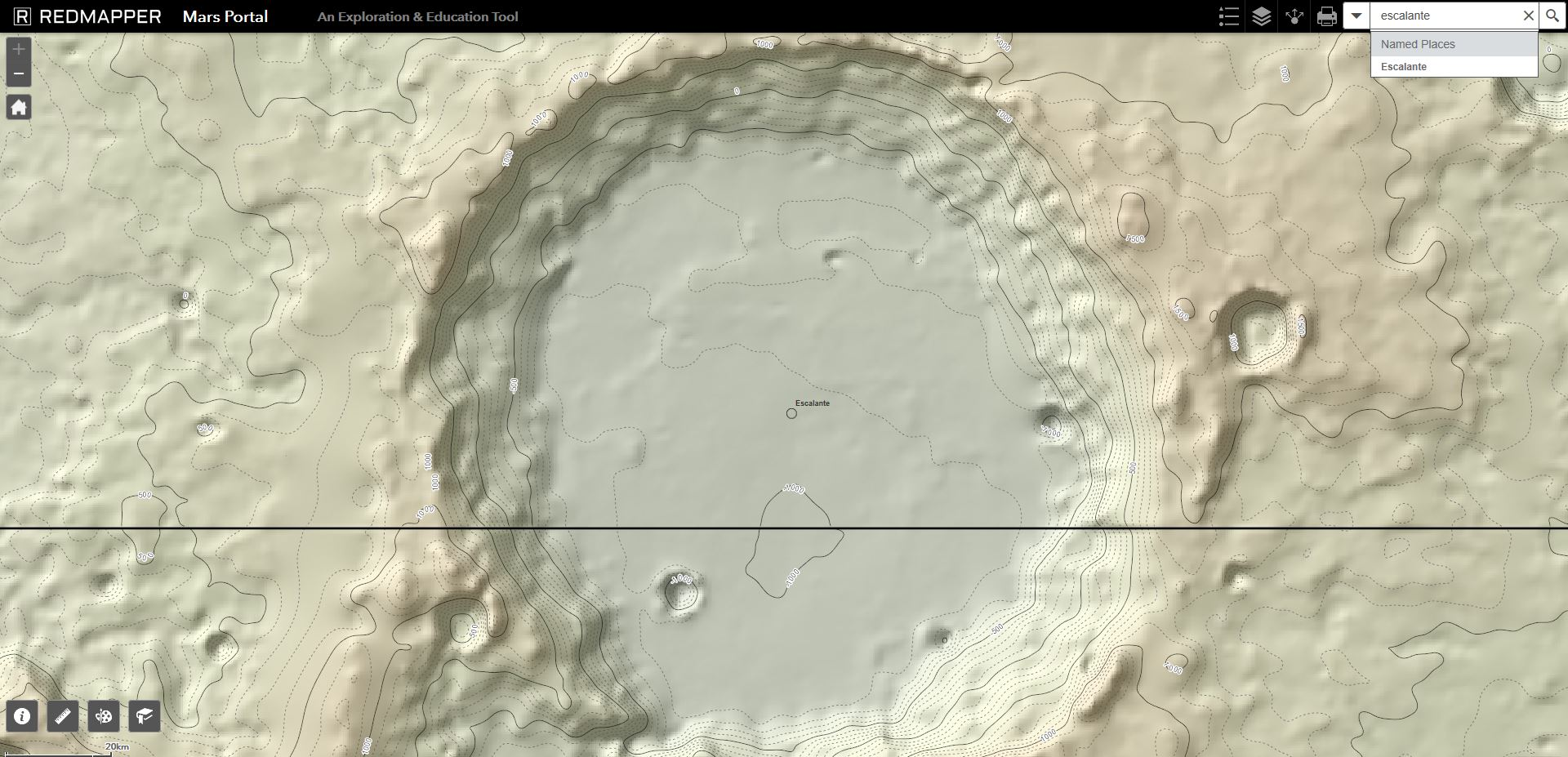 A topographic map created using Mars Orbiter Laser Altimeter (MOLA) data. This map show the relative elevation in 100 meter elevation contour lines (dashed) and 500 meter elevation contour lines (bold) with a total elevation uncertainty of +/- 6 meters.